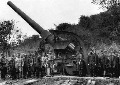 An Austro-Hungarian 24 cm Kanone M. 16